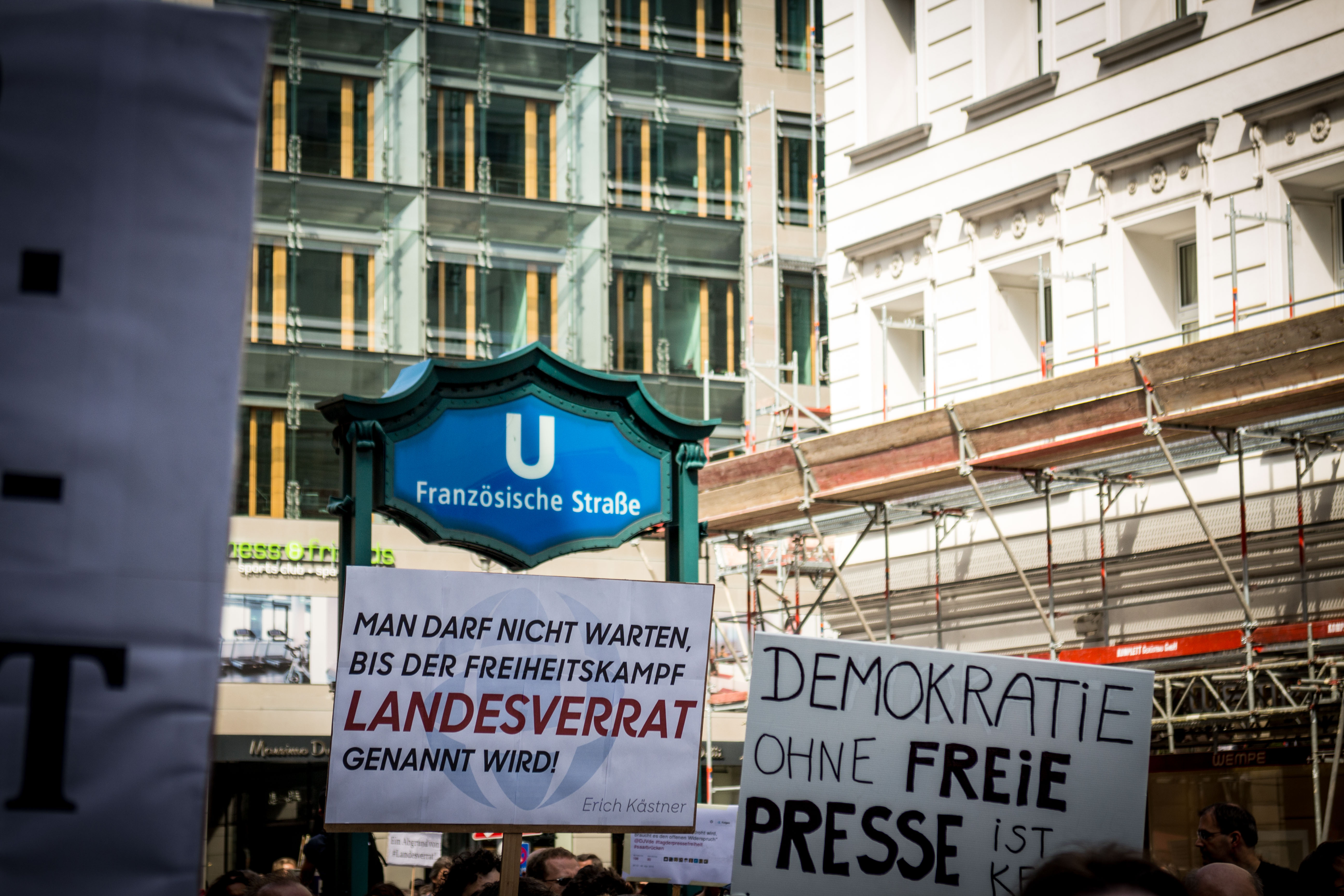 Netzpolitik Demonstration for press freedom in Berlin